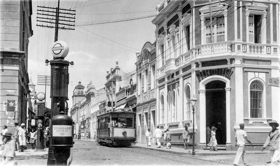 Old photo of Fortaleza, Brazil.